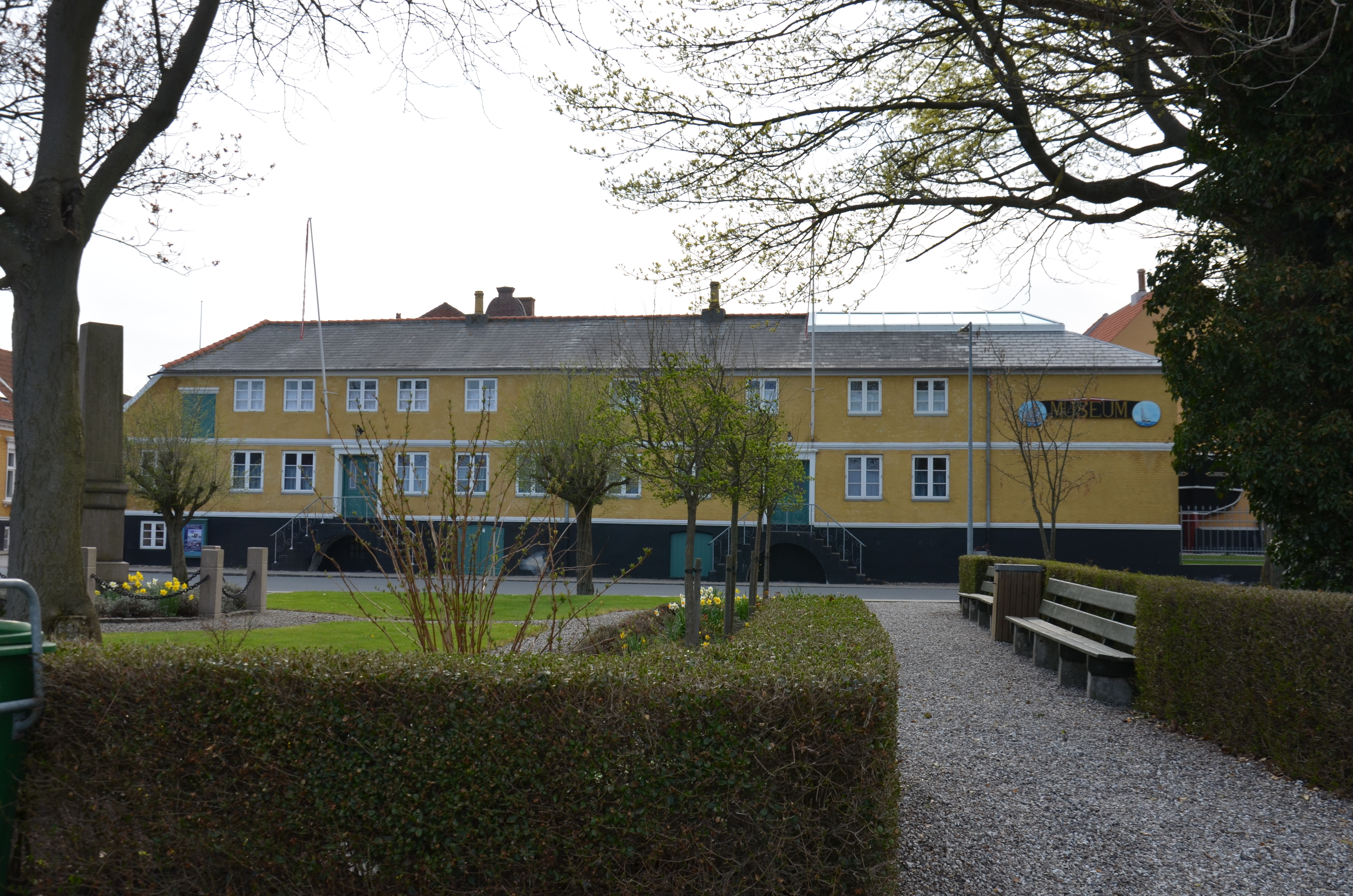 Marstal Söfartsmuseum, Marstal, Denmark